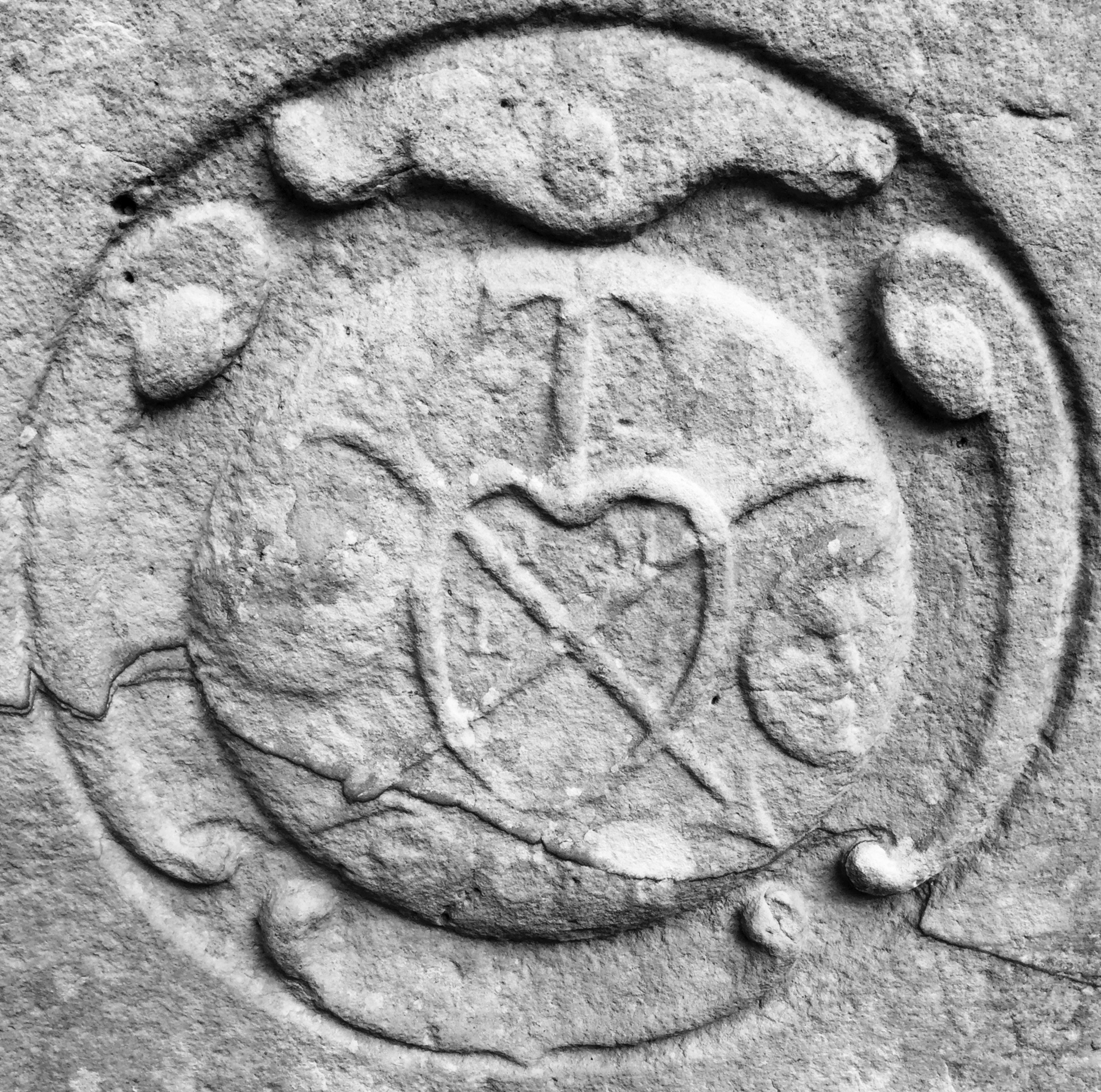 The making of this document was supported by the Community-Budget of Wikimedia Germany. Gravestones in Amrum